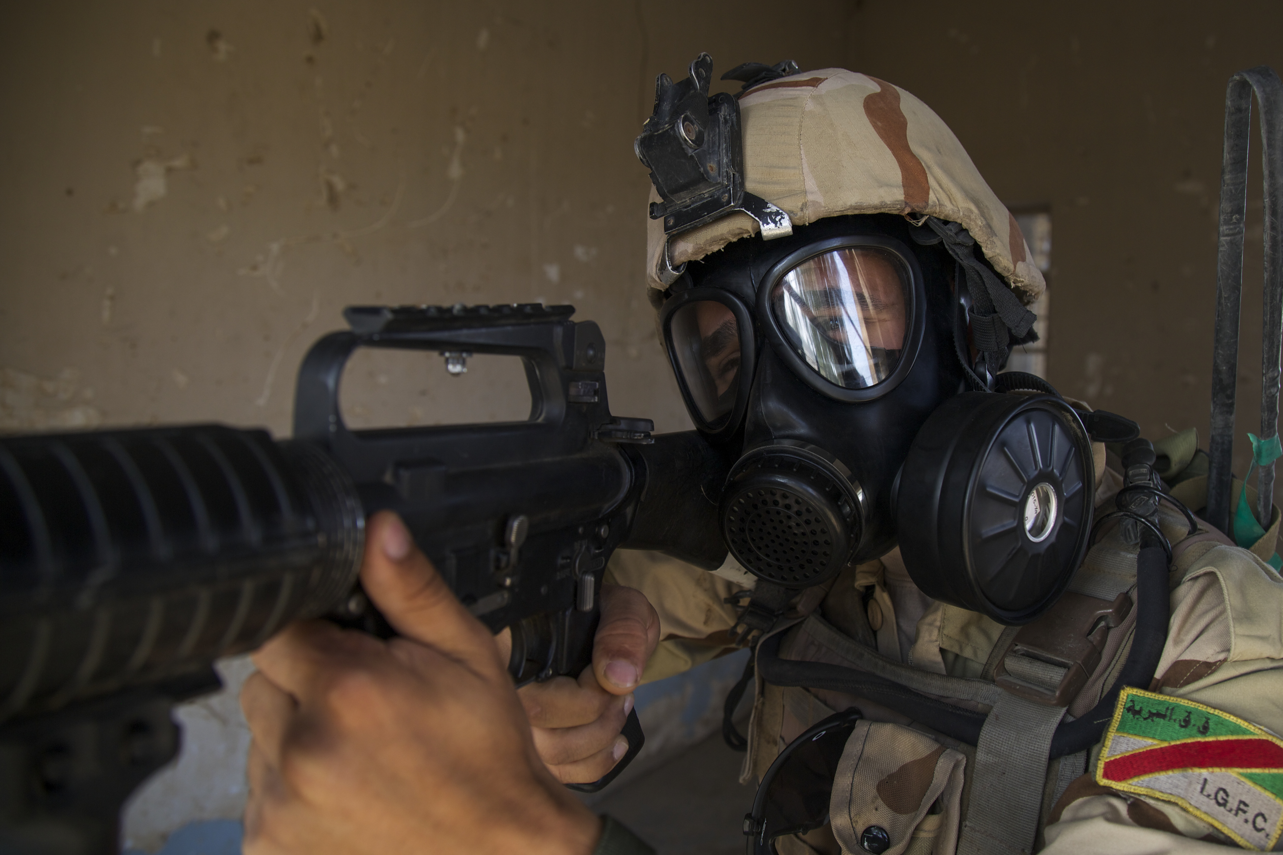 An Iraqi soldier attending the advanced infantry course provides security during chemical, biological, radiological and nuclear defense training at Camp Taji, Iraq, Oct. 9, 2016. This training helps Iraqi soldiers understand and defend against CBRN threats. This training is critical to enabling ISF to counter Islamic State of Iraq and the Levant as they work to regain territory from the terrorist group and support Combined Joint Task Force - Operation Inherent Resolve's building partner capacity mission. (U.S. Army photo by Spc. Craig Jensen)